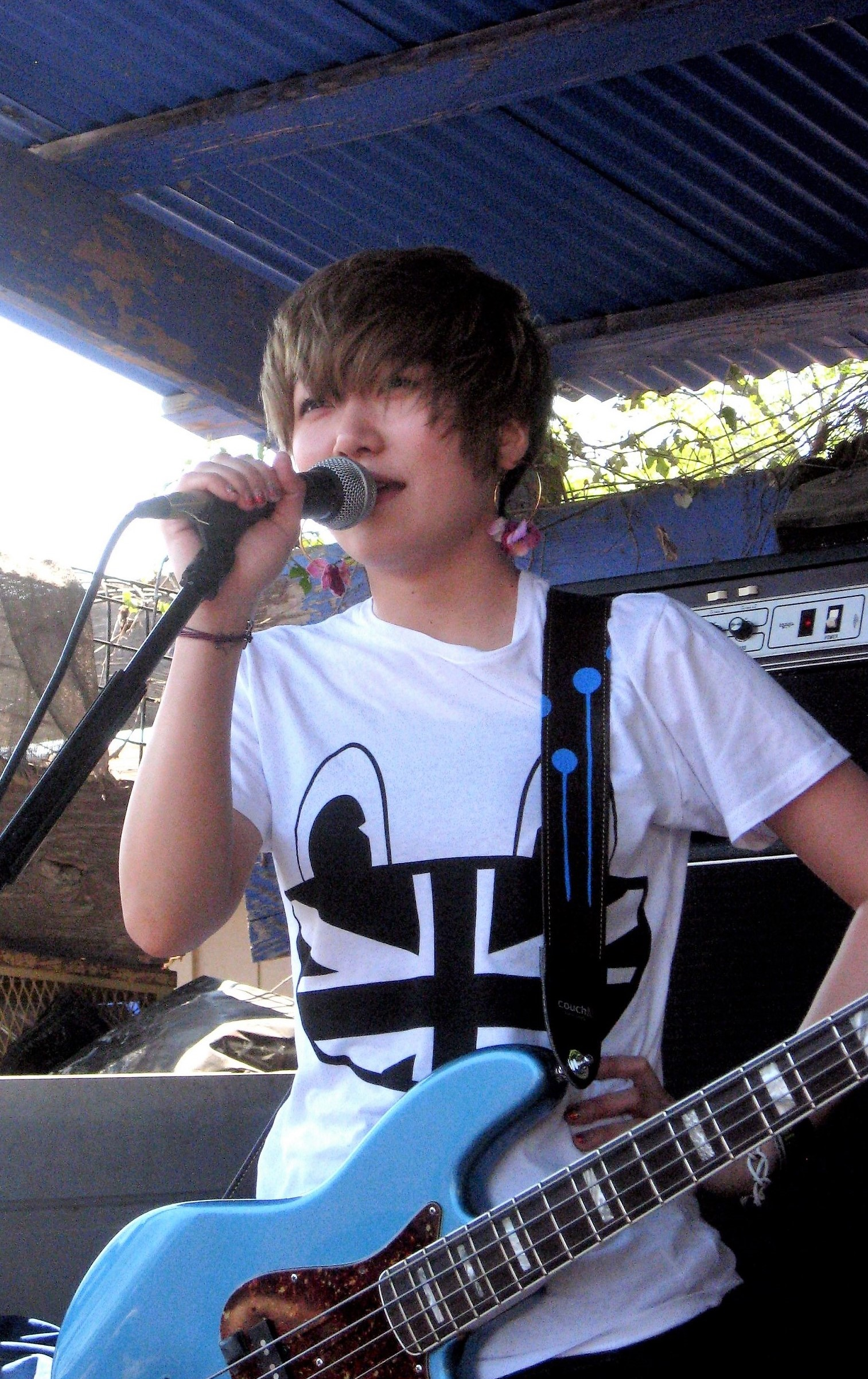 Akiko Fukuoka performing with chatmonchy at the Japan Preview Show in Austin, Texas on March 18, 2010.